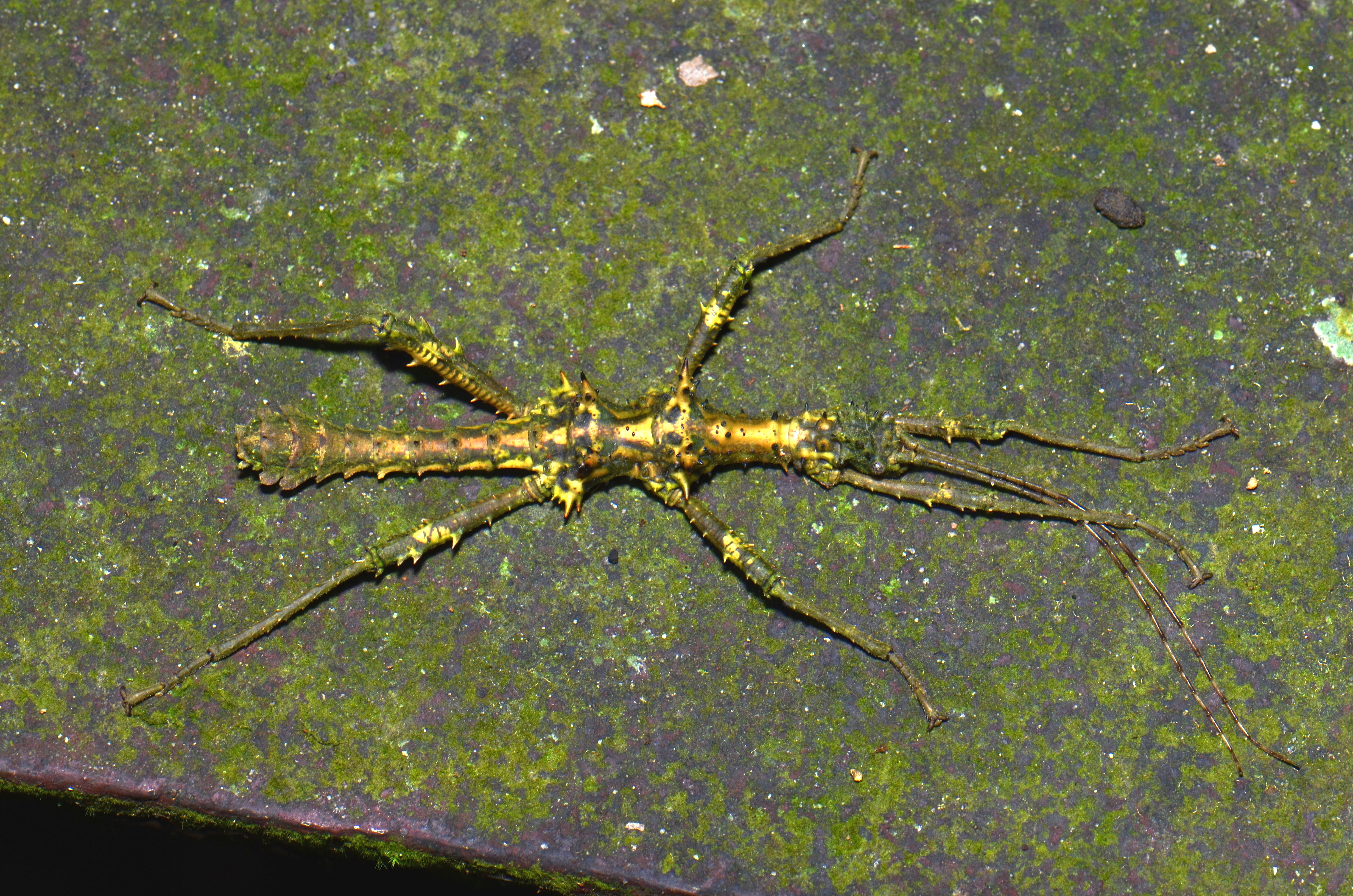 Stick bugs love hanging around boardwalks in Mulu NP, makes observations easy Thanks to Gerry for ID